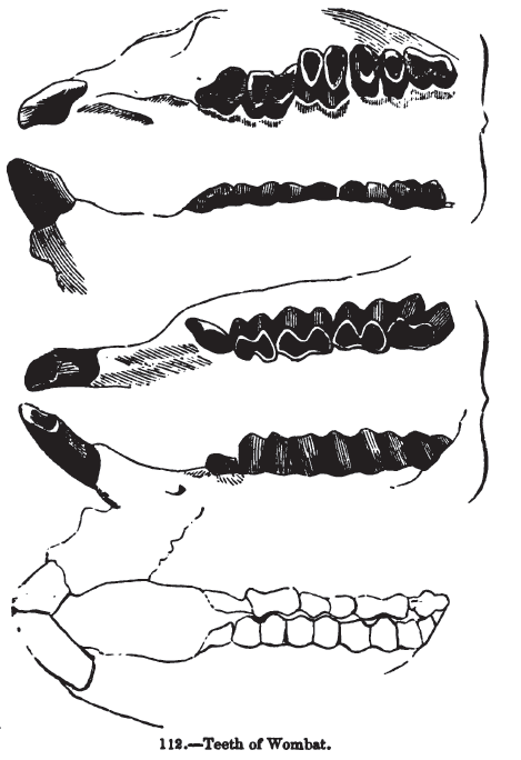 Dentition of a common wombat